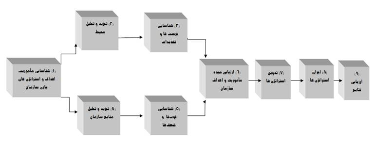 strategic planning5